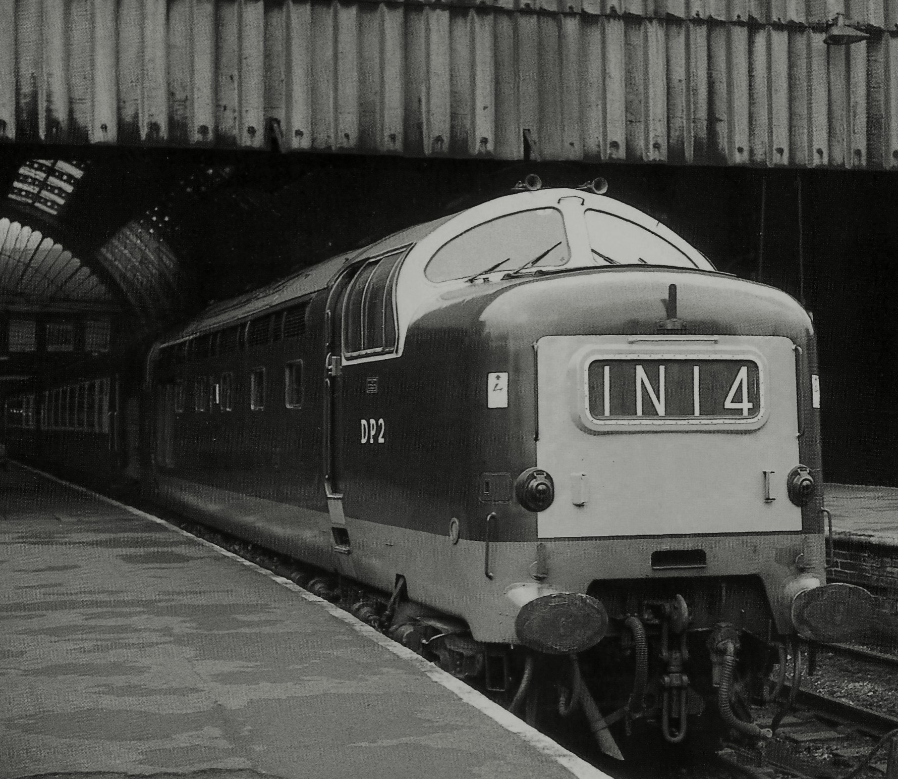 DP2 stands at Bradford Exchange on 11th February 1967..We can only wonder what would have been the outcome if BR had ordered 50 of these instead of 50 Class 50s...Simply a Class 50 in a Deltic body... Shot taken with a Kodak Instamatic....